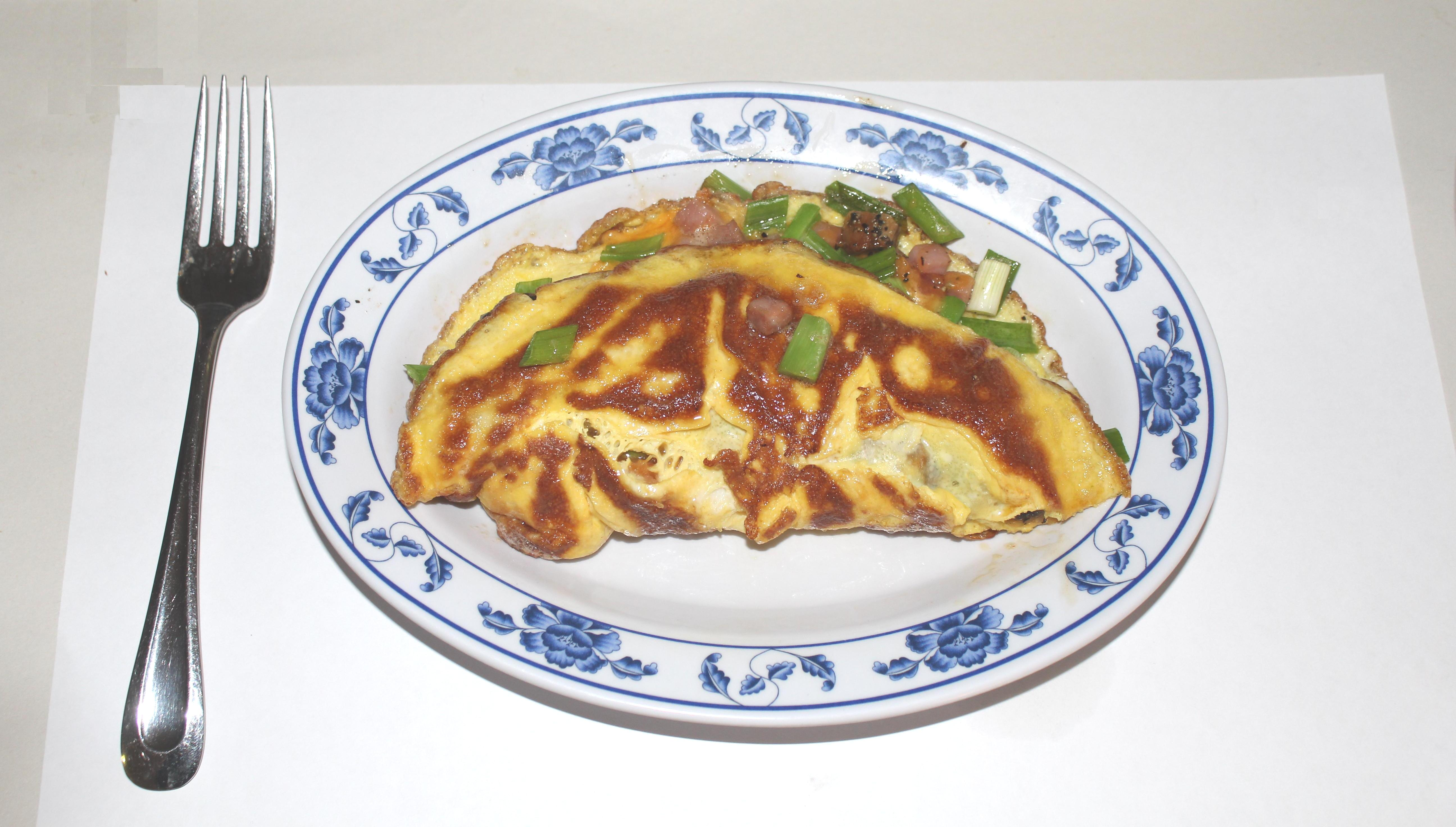 An omelet.